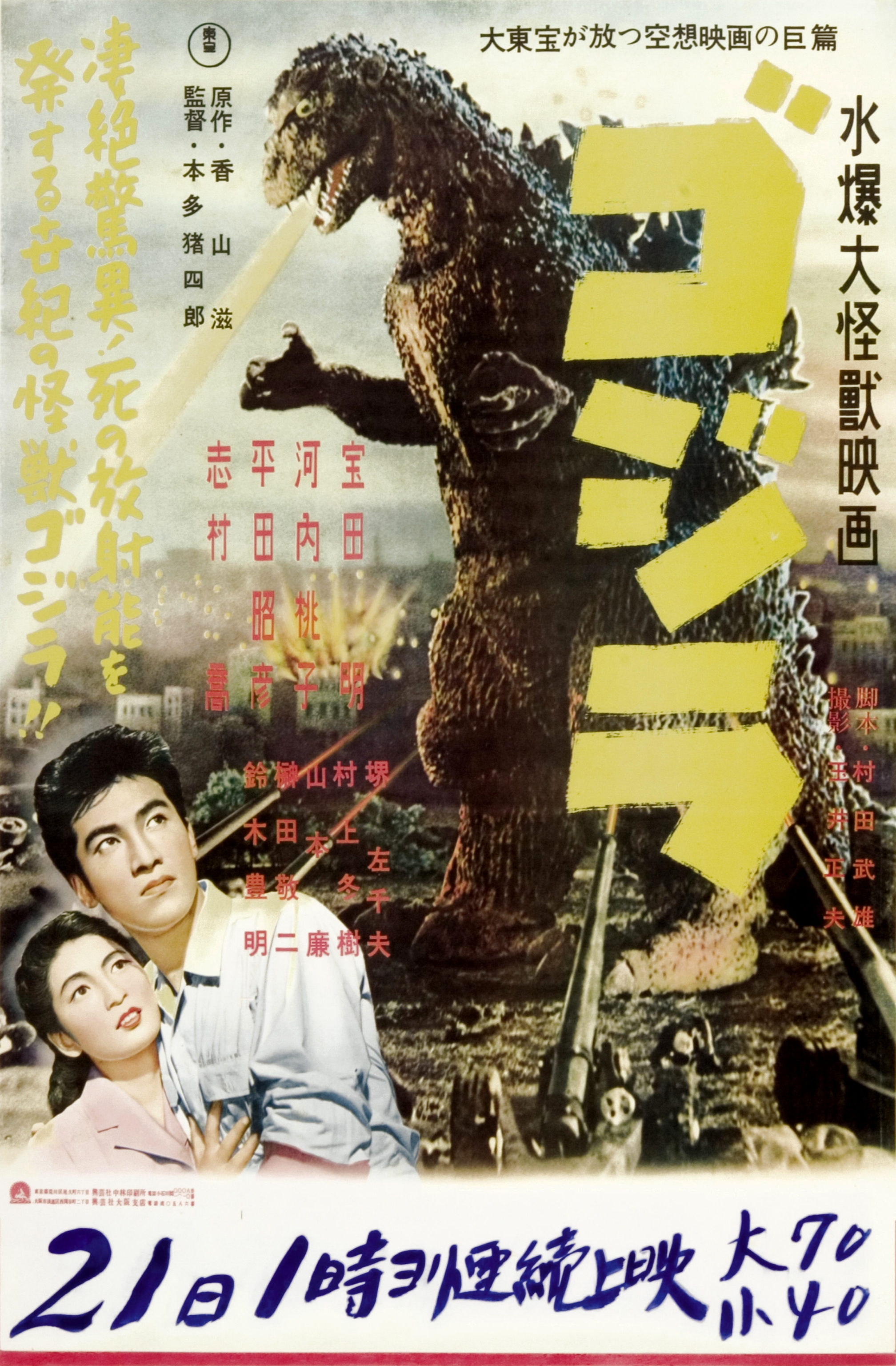 1954 Japanese movie poster for 1954 Japanese film Godzilla.